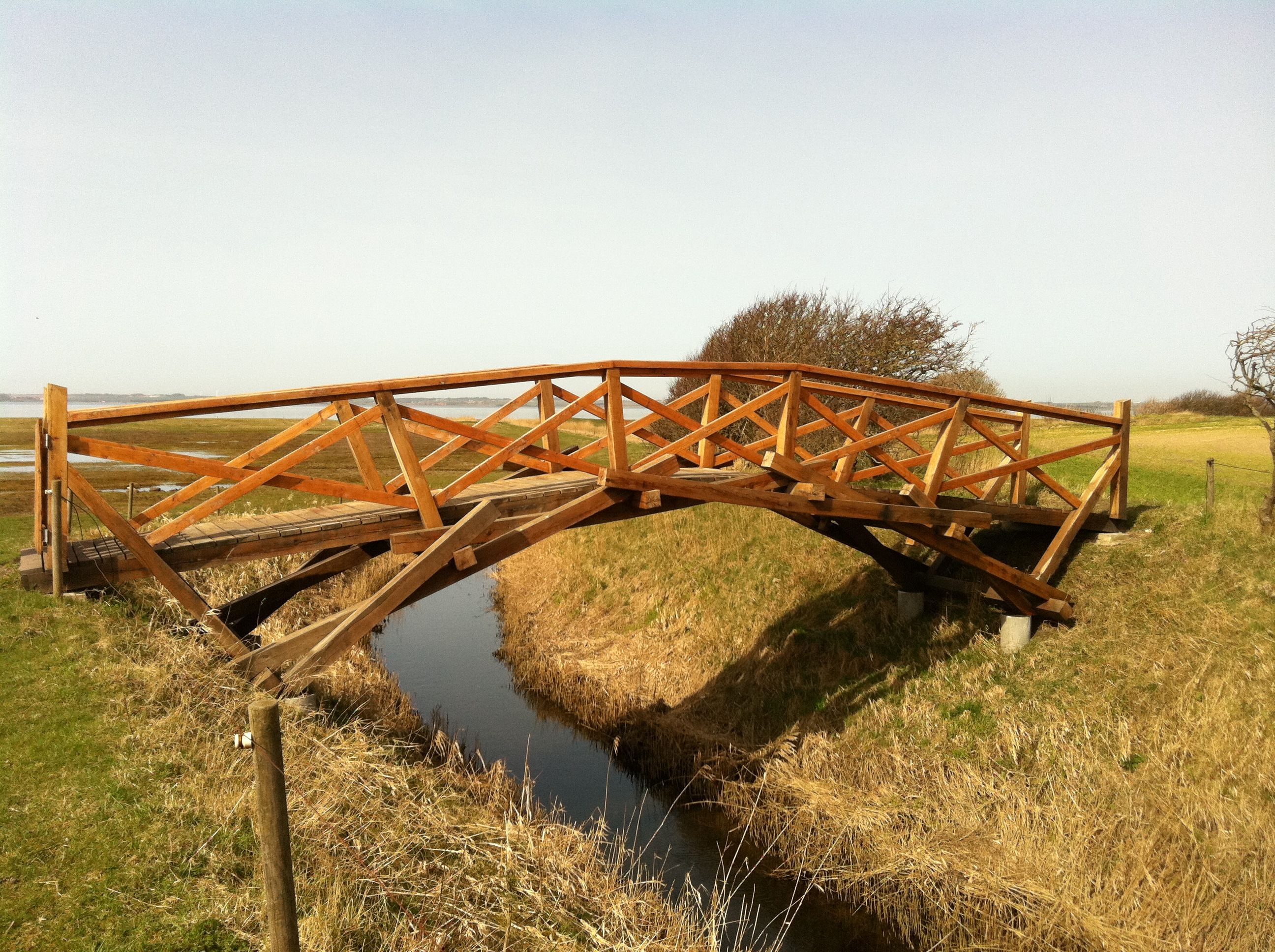 Bridge in built using Leonardo da Vinci's design for a self supporting bridge.